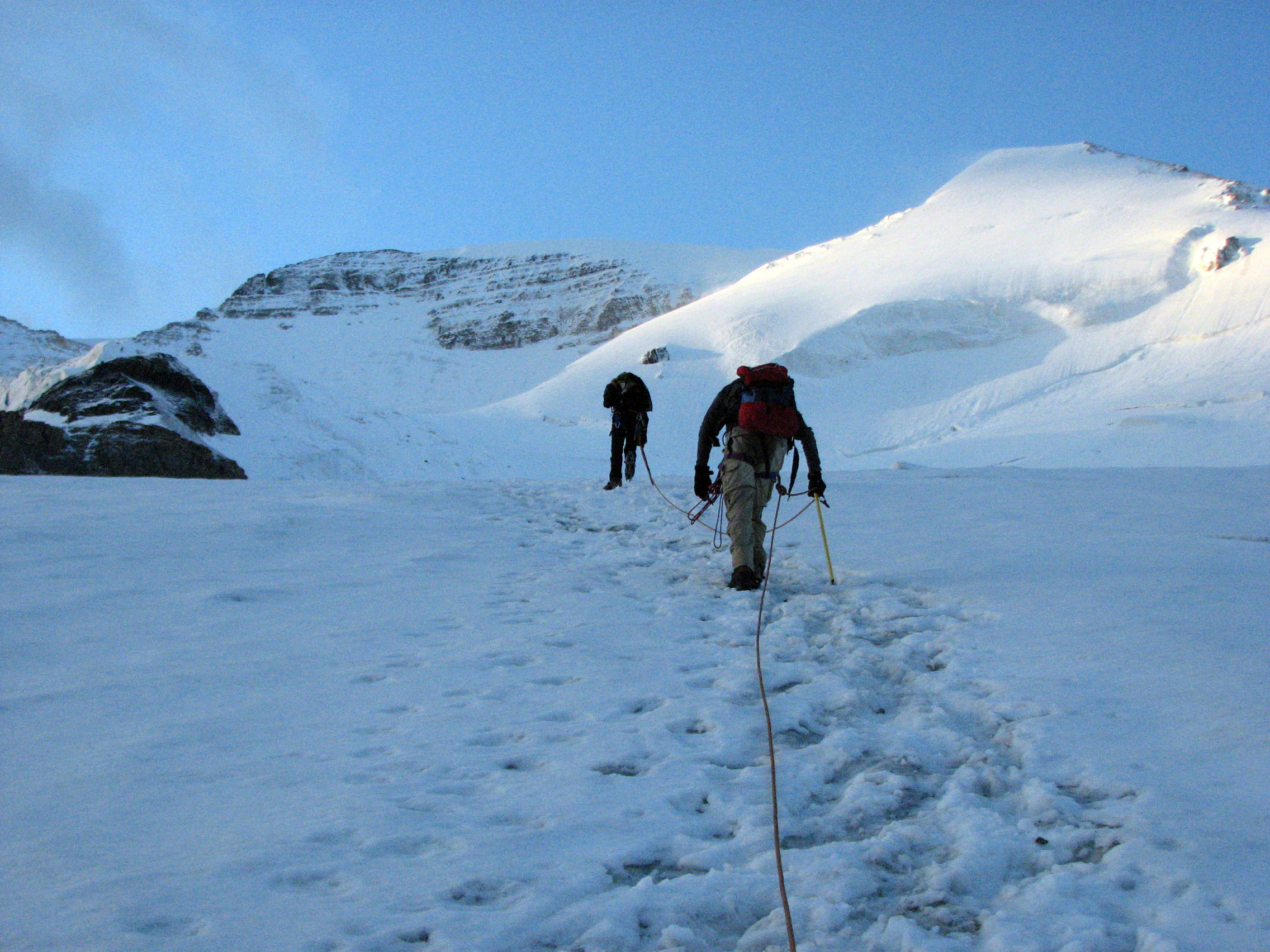 Climbers heading up the North Glacier of Mt. Athabasca early in the morning